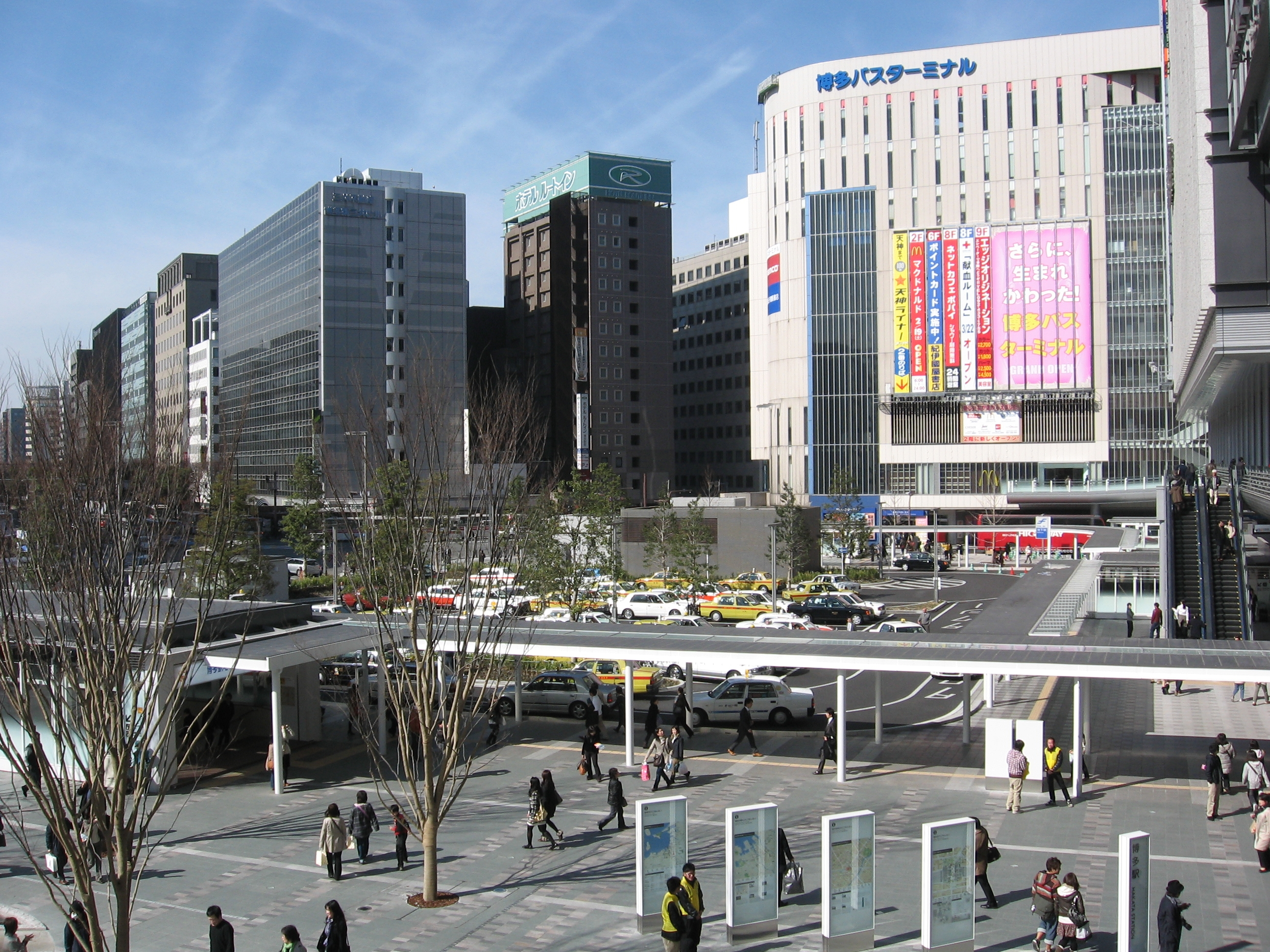 Hakata Station square and taxi pool of its Hakata-Guchi, Fukuoka, Japan. Buildings of Hakata Bus Terminal and Mitsui behind them.